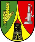 Coat of arms of Kalenborn